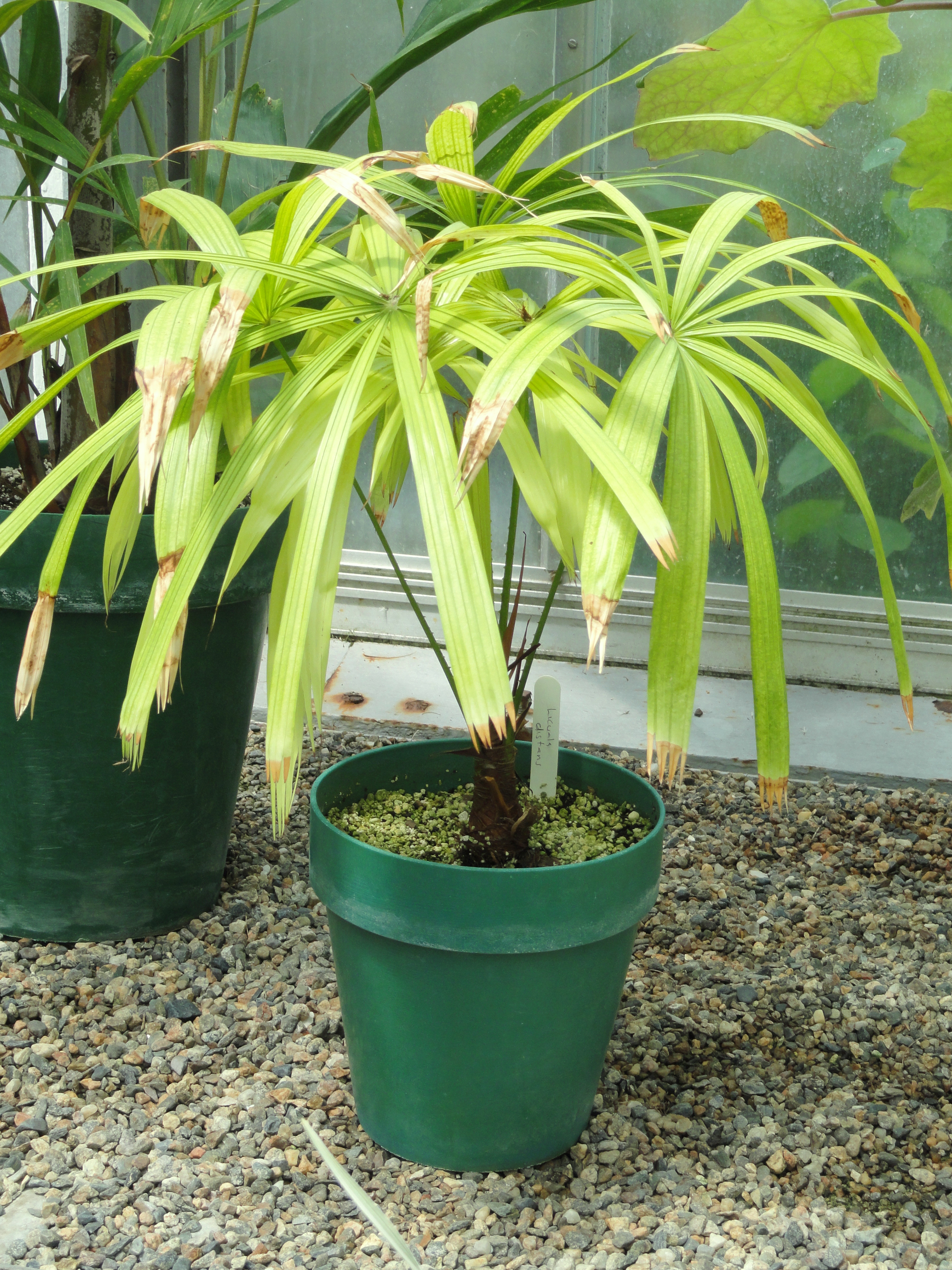 Botanical specimen in the Margaret C. Ferguson Greenhouses, Wellesley College Botanic Gardens, Wellesley College, Wellesley, Massachusetts, USA.